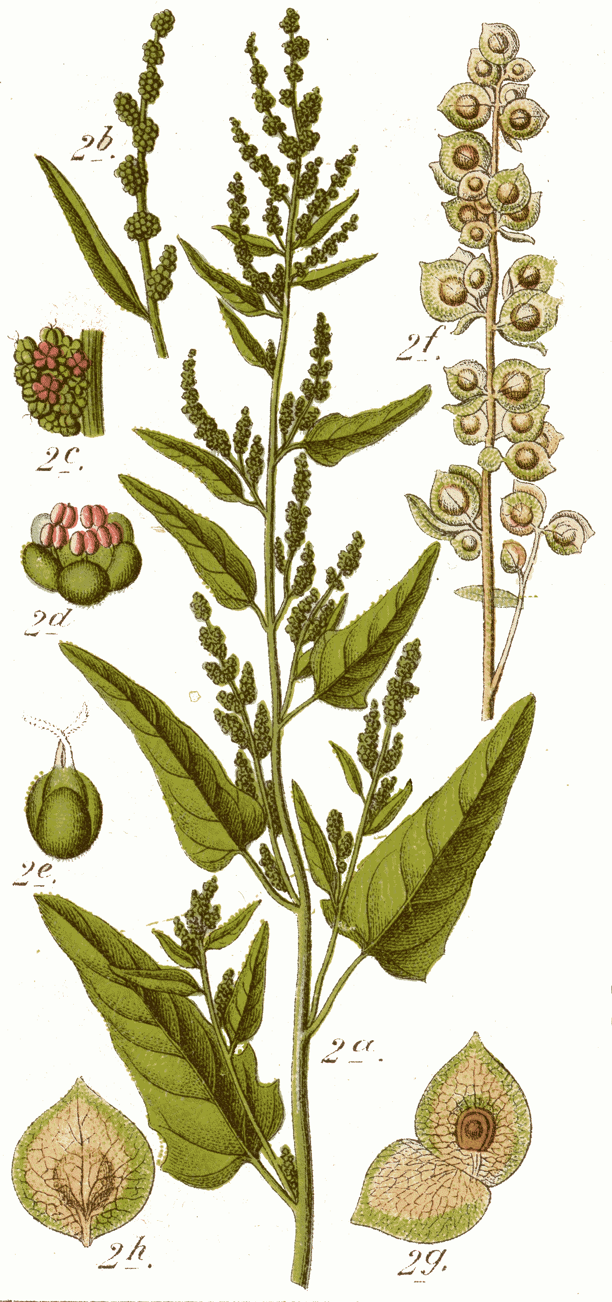 Atriplex hortensis Original Caption Garten-Melde, Chenopodium hortense